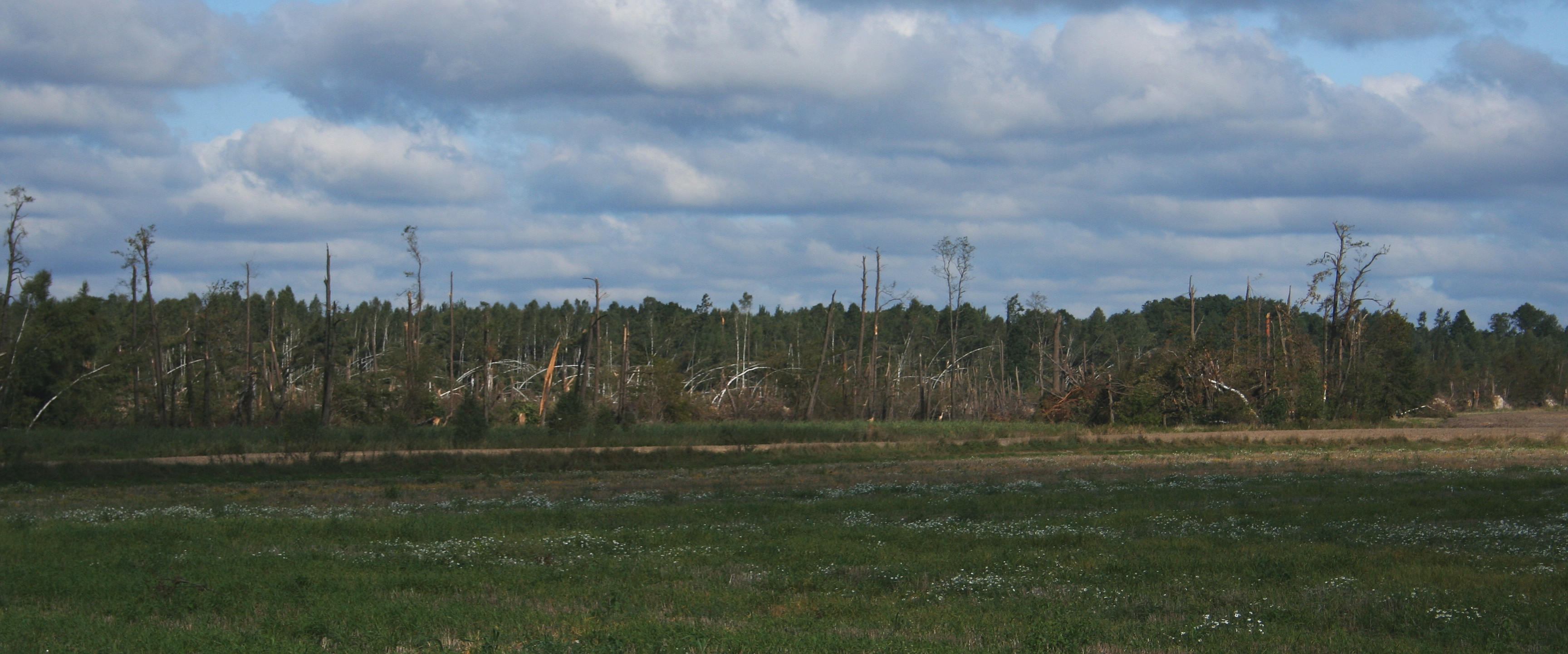 forest after tornado near Koszęcin, Poland